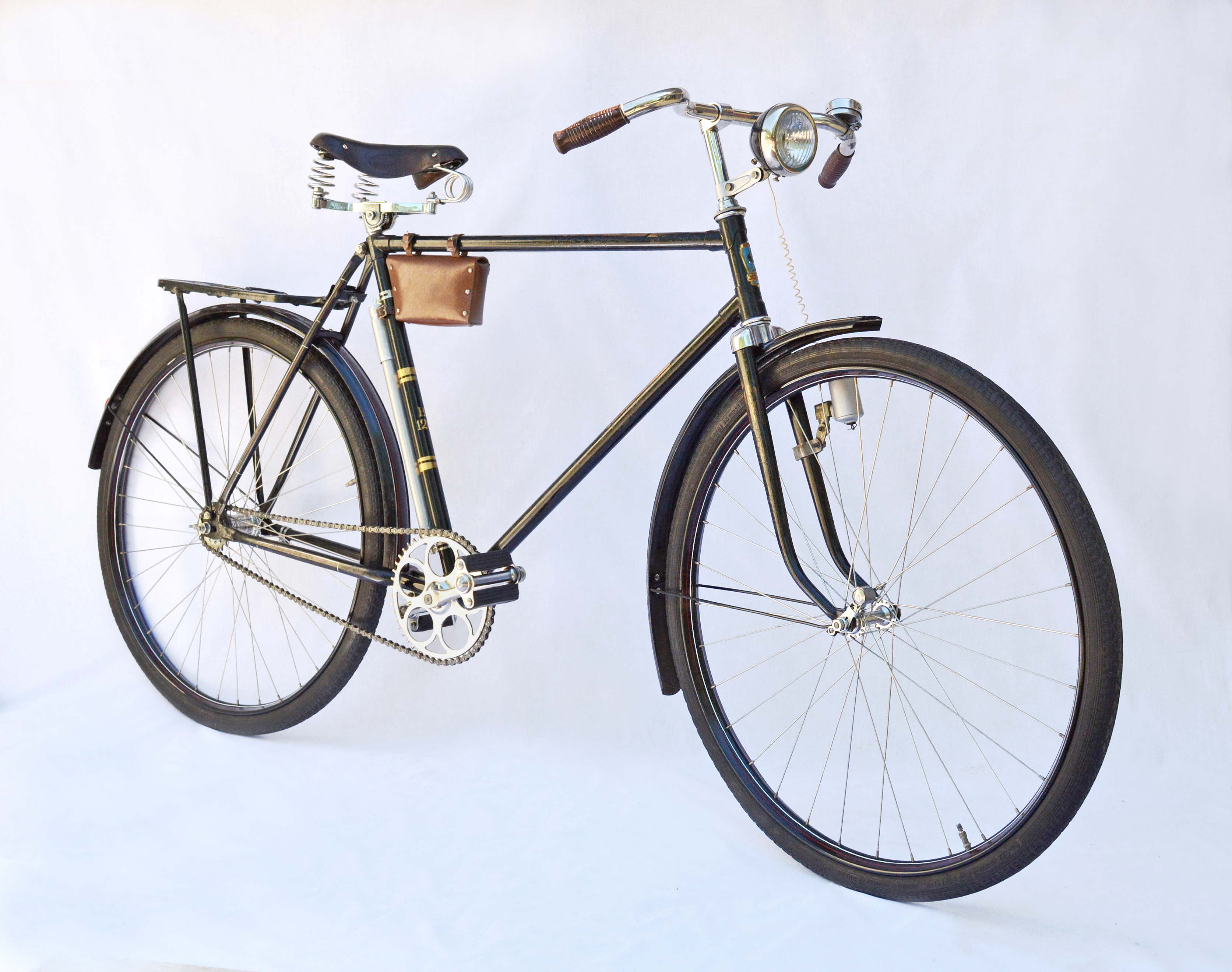 USSR bicycle W-120 Ukraina (Kharkiv bicycle factory) 1961